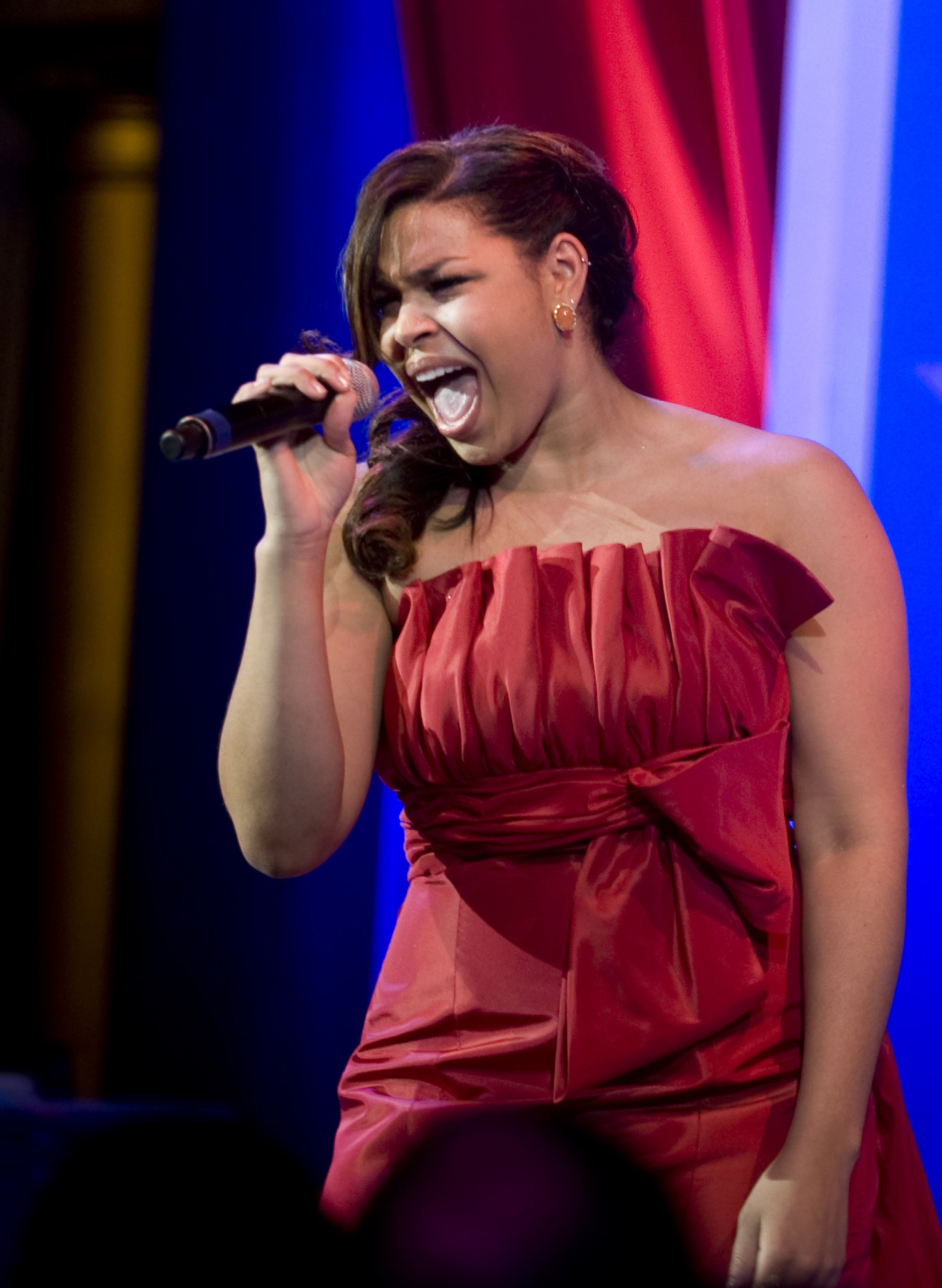 American Idol winner Jordin Sparks performs at the Commander in Chief's Ball at the National Building Museum, Washington, D.C., Jan. 20, 2009. The ball, hosted by President Barack Obama, honored America's servicemembers, families, the fallen and wounded warriors.